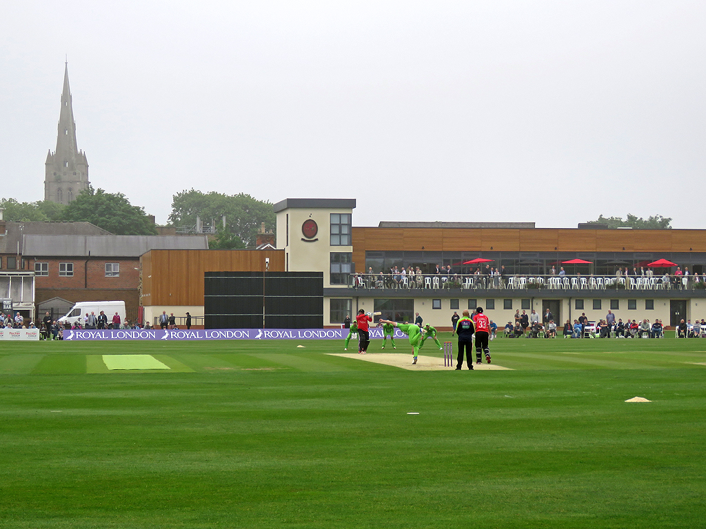 On the misty morning of Leicestershire's One Day Cup match against Lancashire the chunky Mark Cosgrove pulled a ball on his way to 52 - the top score of Leicestershire's meagre 172, a total the visitors later overhauled with 9 wickets and 24 overs to spare.